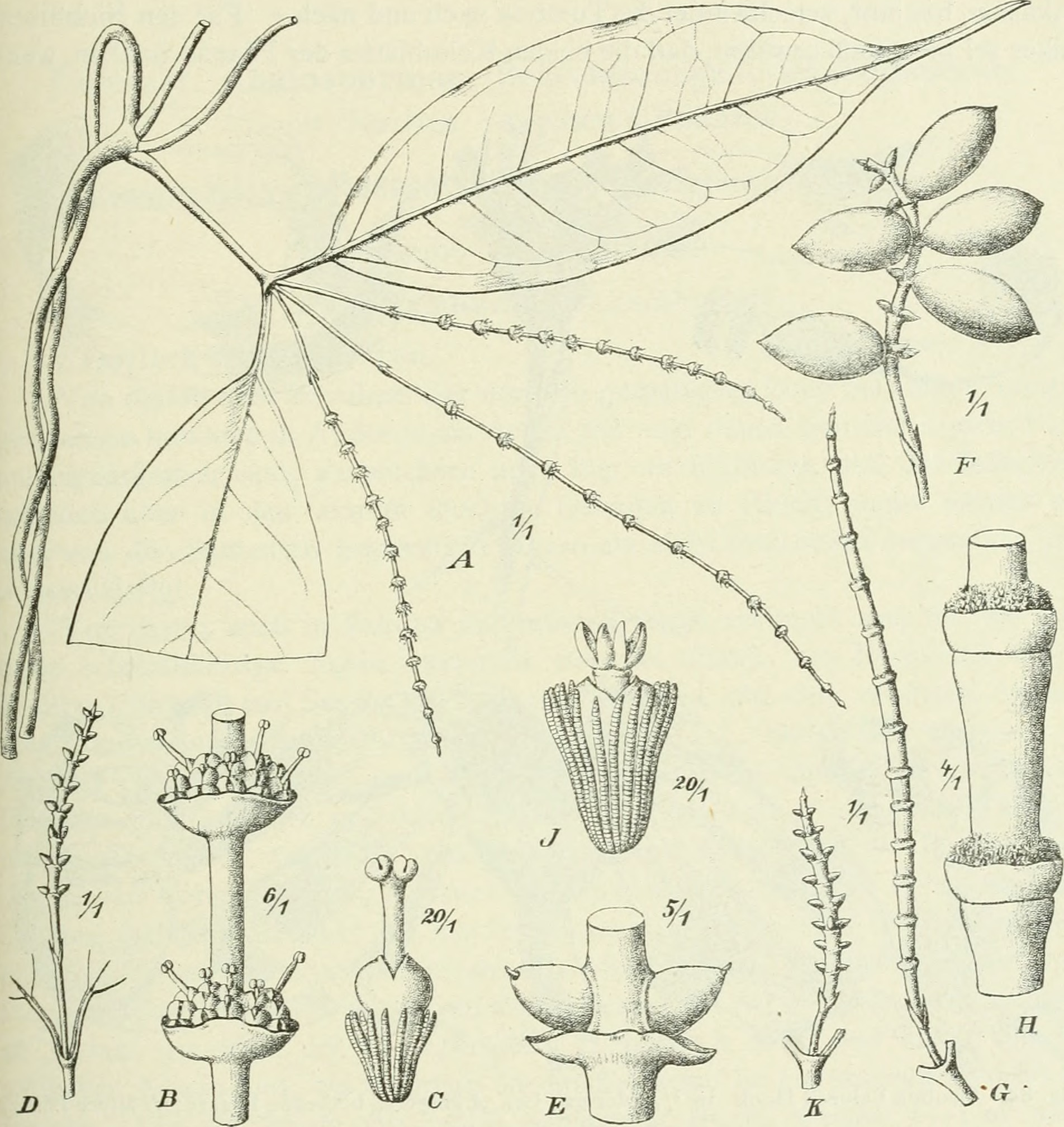 Title: Die Pflanzenwelt Afrikas, insbesondere seiner tropischen Gebiete : Grundzge der Pflanzenverbreitung im Afrika und die Charakterpflanzen Afrikas Year: 1910 (1910s) Authors: Engler, Adolf, 1844-1930 Subjects: Botany Publisher: Leipzig : W. Engelman Text Appearing Before Image: Gnetales. — Gnetaceae. 91 Sandsteinkieseln bedeckt ist, ferner auf Sandstein selbst häufig ist; selbst kleine Exemplare mit Wurzeln von der Dicke einer Mohrrübe können nicht ohne wei- teres aus dem völlig- trocknen und sterilen Boden herausgezogen werden. Nach Baum') sind in den trockensten Monaten des Jahres, Juni bis August, die Pflanzen Text Appearing After Image: Fig. 84. A—F Gnetum africanum Welw. A Zweig mit männlichen Blüten; B Stück eines männ- lichen Blütenzweiges; C eine männliche Blüte; D Blütenstand mit weiblichen Blüten; E zwei weibliche Blüten; F Früchte. G—A' Gnetum Buchholzianum Engl. G männlicher Blütenstand; // Stück desselben vergr.; J männliche Blüte. durch starke, oft 14 Tage andauernde Nebel vor dem Austrocknen durch die Sonne geschützt. »Diese Nebel werden in den kühlen Nächten zu so starkem Tau niedergeschlagen, daß am Morgen die wenigen Pflanzen, welche in dieser ') Baum, Kunene-Sambesi-Expedition, S. 3.